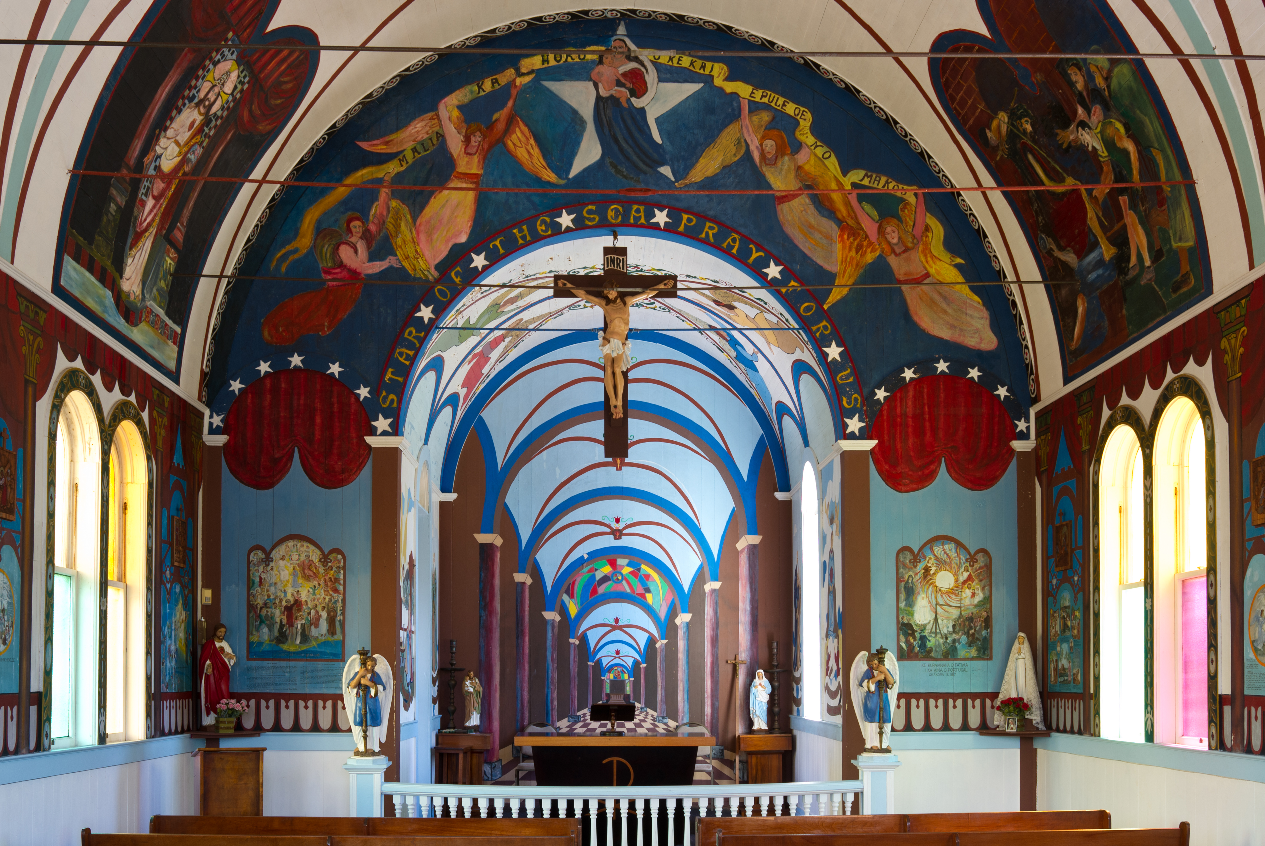 Interior view of the Star of the Sea Painted Church, Big Island, Hawaii.